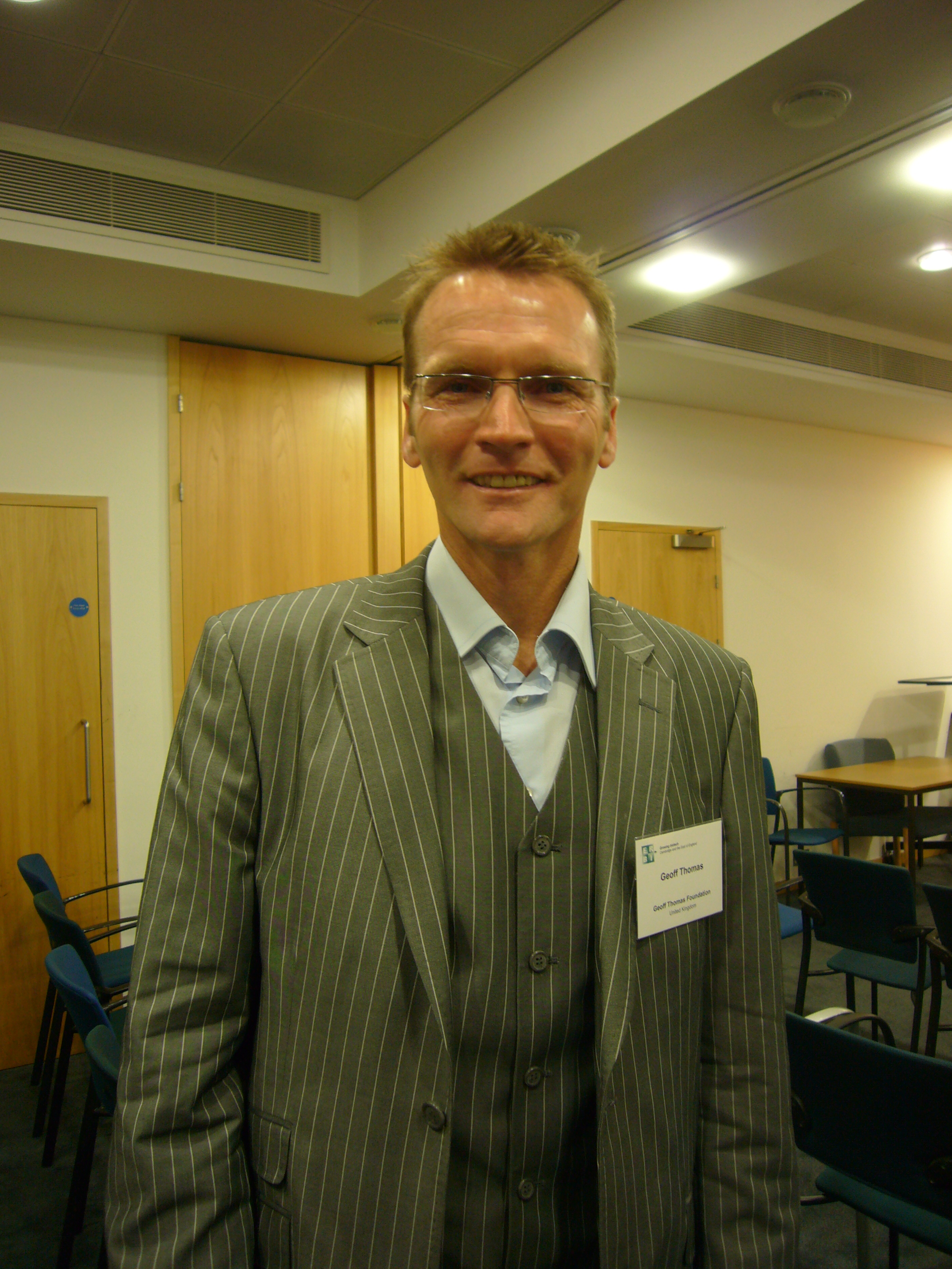 Geoff Thomas at the Sanger Center (Cambridge, Cambridgshire, UK).